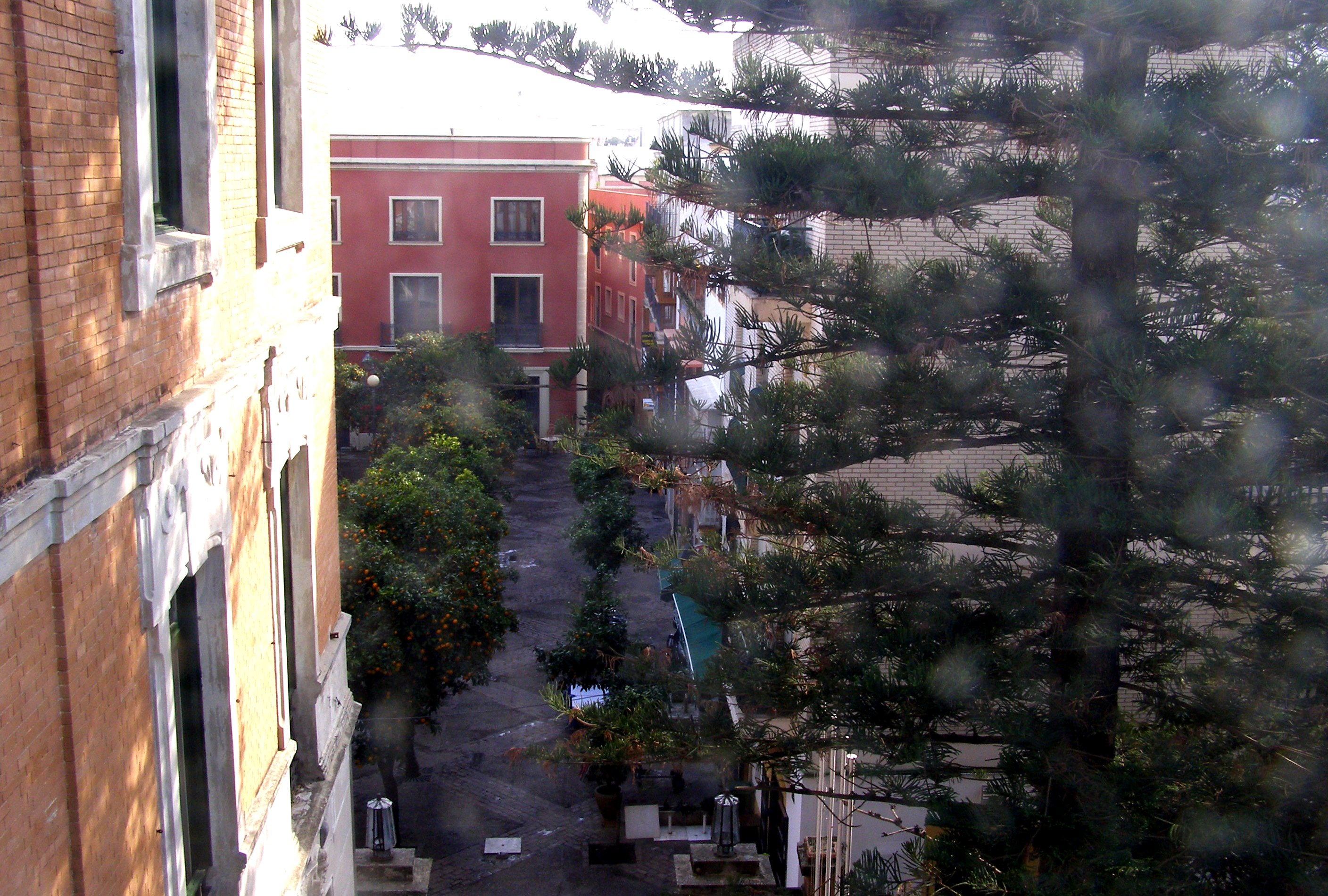 View of part of the Bank Square from the Library Tower, Jerez de la Frontera